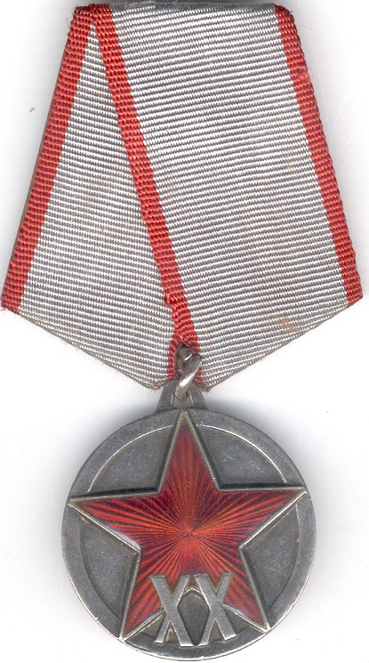 Obverse of the Jubilee Medal "20 Years of the Armed Forces of the USSR".